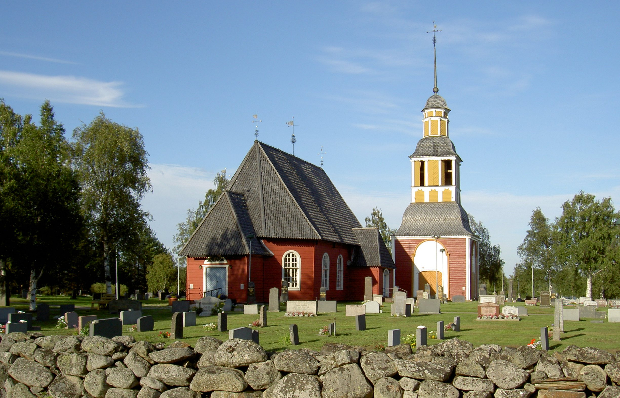 The church of Hietaniemi at the western riverside of the Torne River. The church was built in the 1740s.